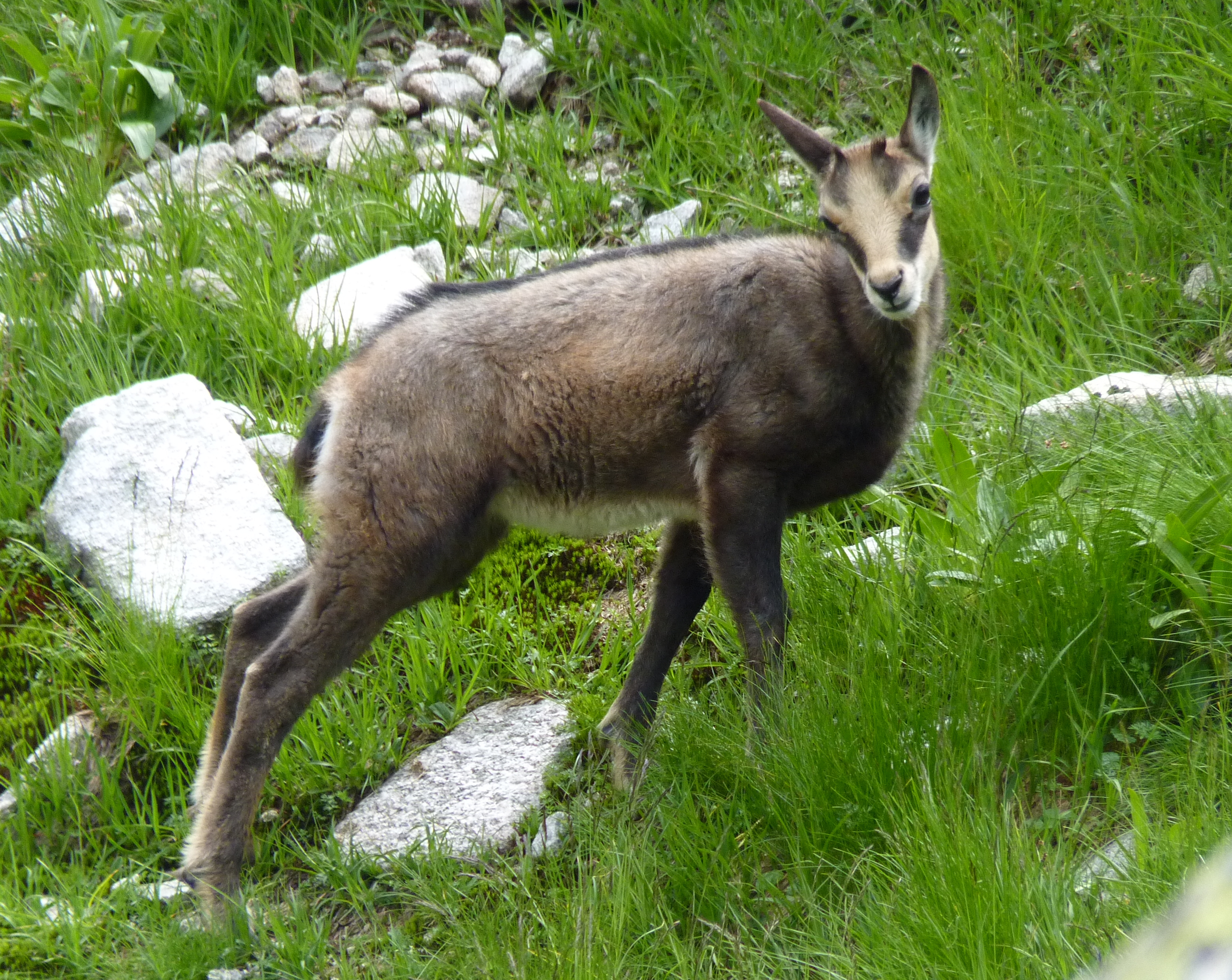 Dolina Bielej vody - path from "Zelene pleso" to "Jahnaci stit", High Tatras, Slovakia